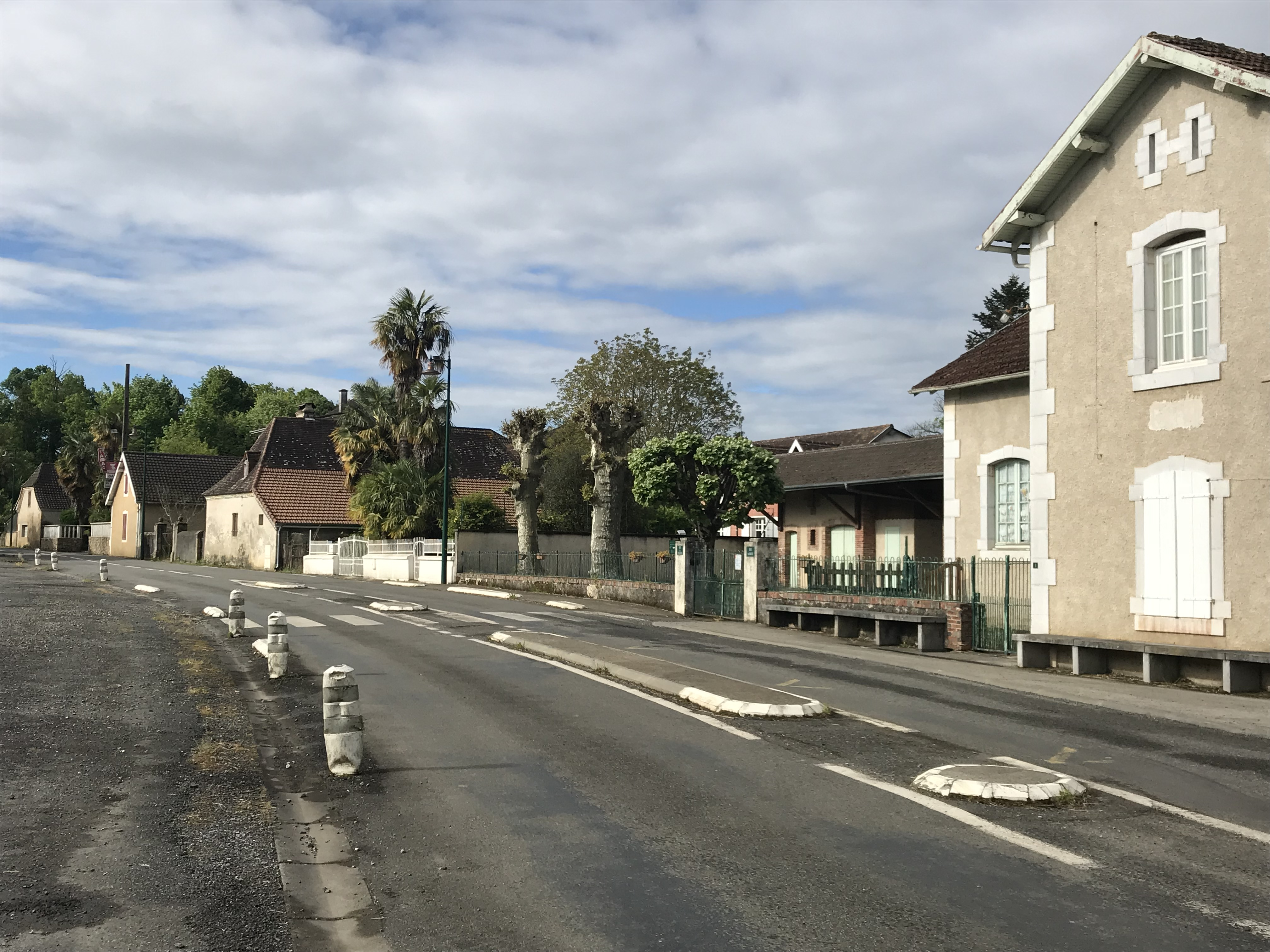 Main road of Lalongue (64, France)